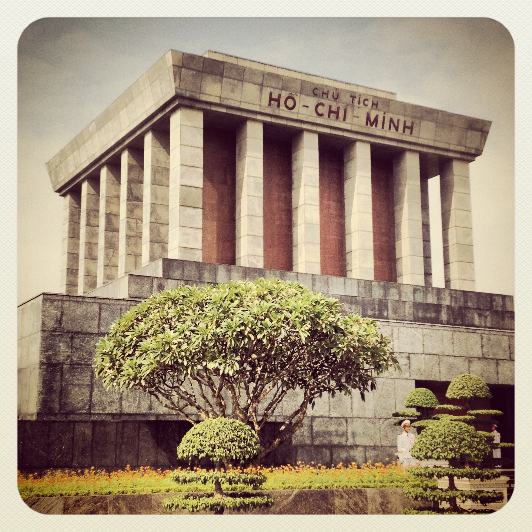 Ho Chi Minh Mausoleum, Hanoi.